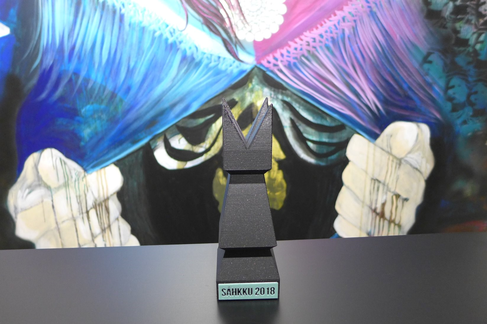 Sáhkku 2018 Trophy by Ingemund Skålnes in front of mural by Anders Sunna at the Oslo Sámi House.